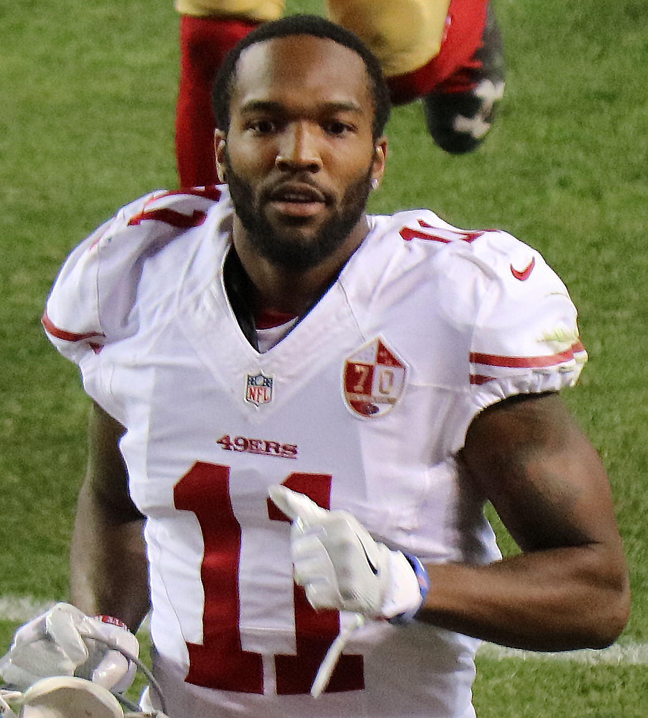 Quinton Patton, a player on the National Football League.